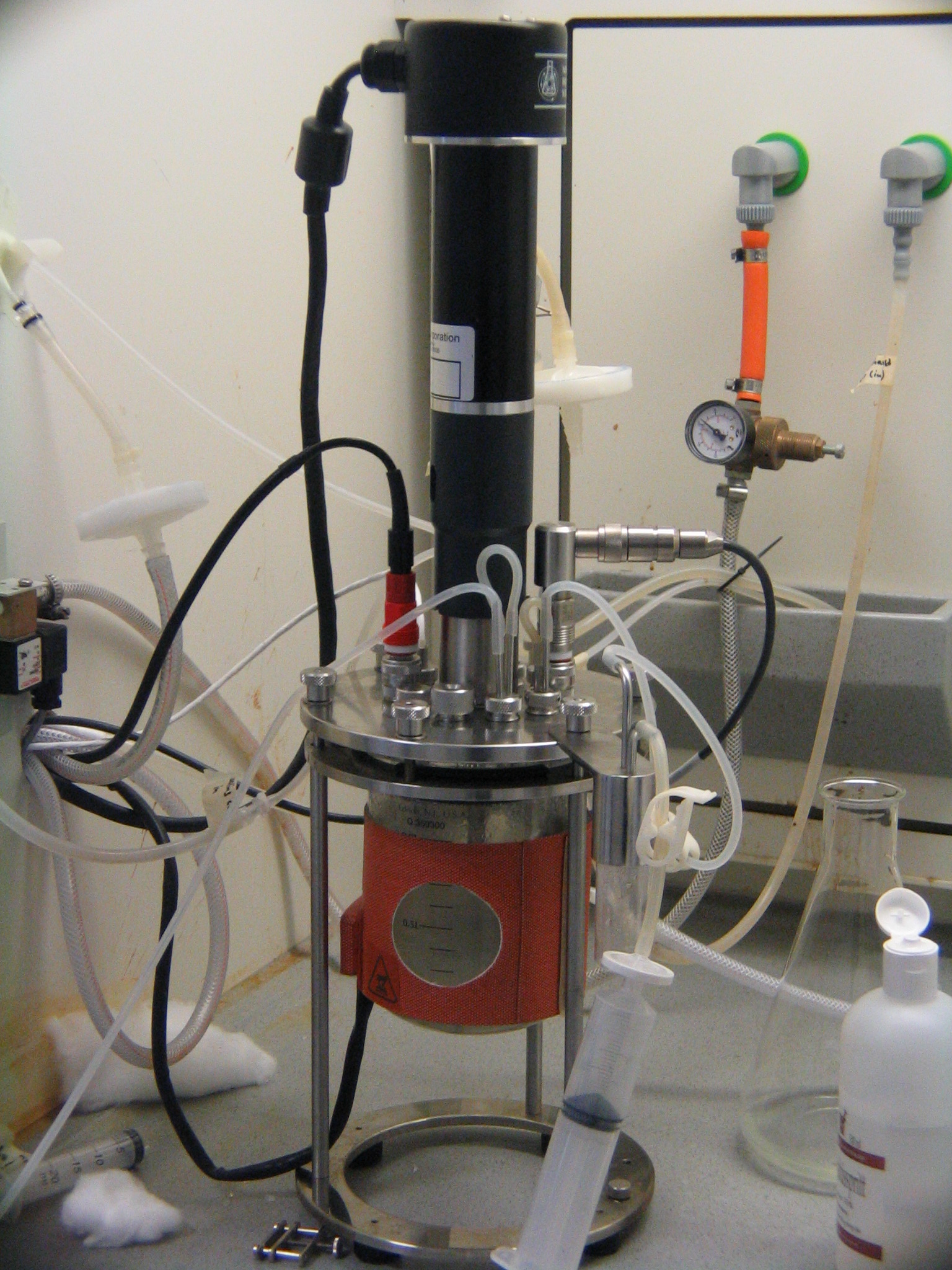 Reactor